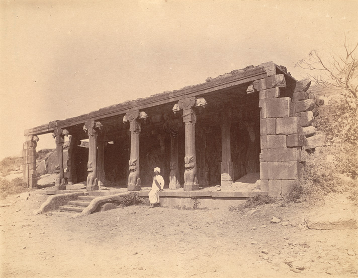 General view of the entrance to the Krishna Mandapa